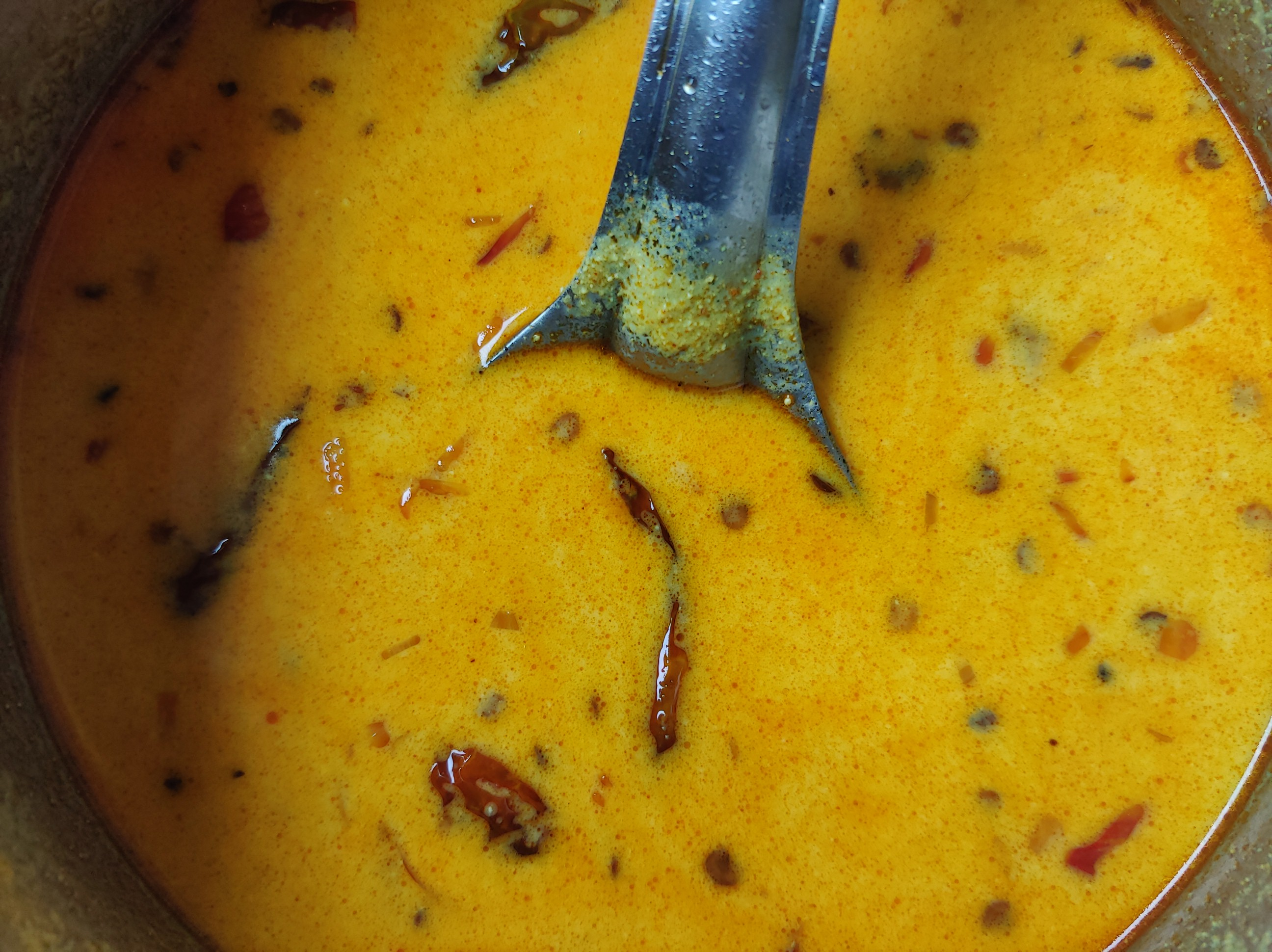 Butter milk curry closeup